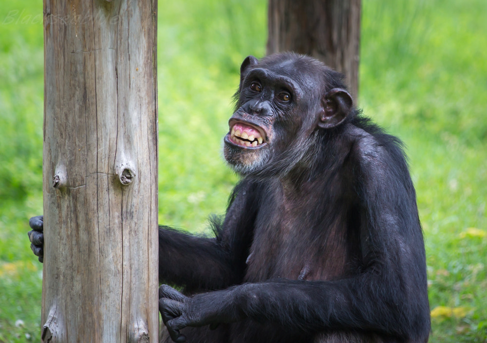 500px provided description: Chimpanzee mother. [#animal ,#zoo ,#shanghai ,#chimpanzee]